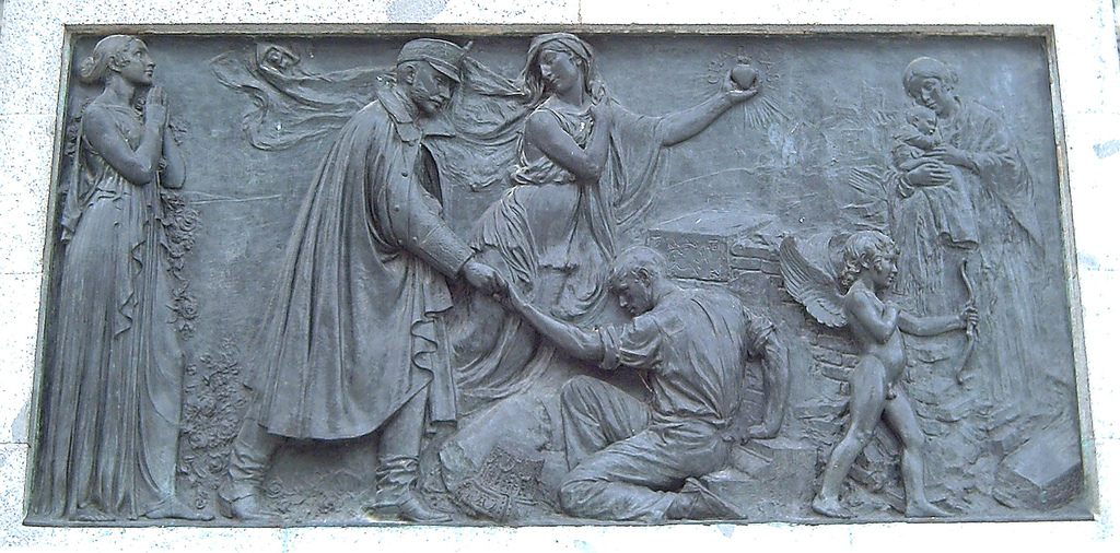 La Caridad Real (The Royal Charity). Bronze relief by sculptor Lorenzo Coullaut Valera. Detail of the Monument to Alfonso XII of Spain in the Retiro Park (Jardines del Buen Retiro) in Madrid, built from 1902 to 1922.